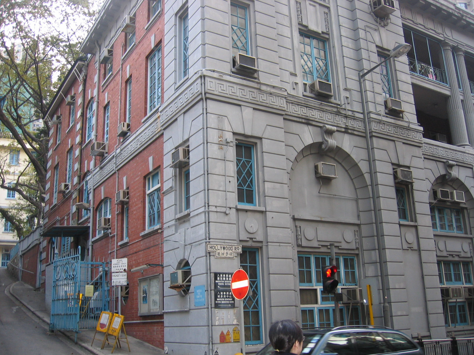 Side view of Old Central Police Station, Hong Kong.